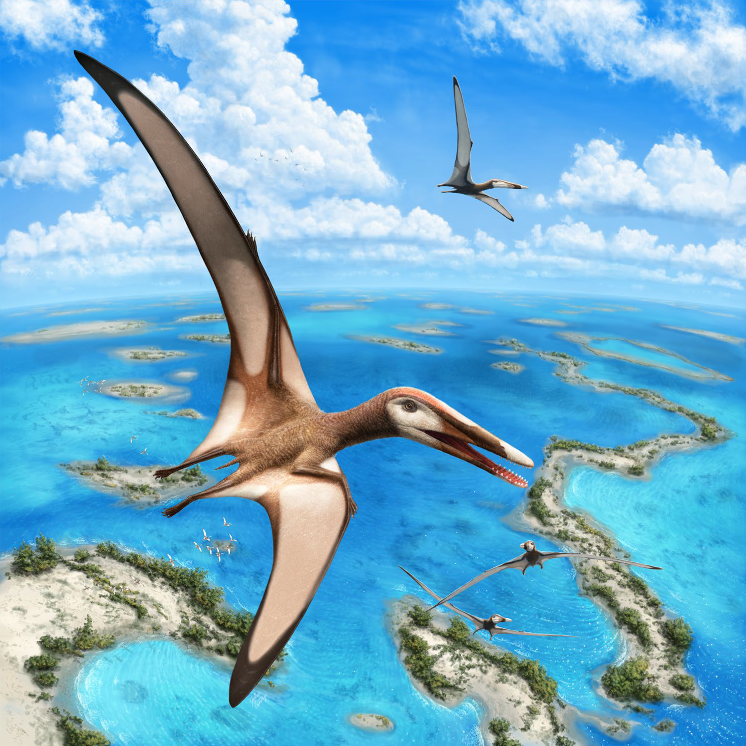 Life reconstruction of Mimodactylus libanensis gen. et sp. nov.